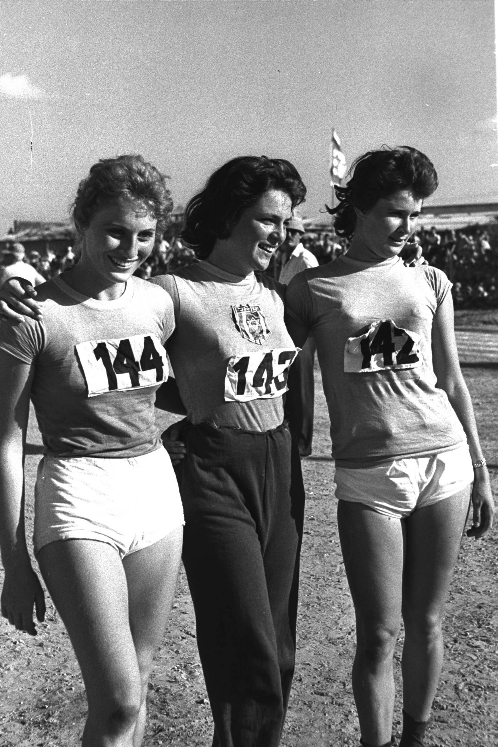 RUNNERS PARTICIPATING IN THE 5TH MACCABIA GAMES HELD AT THE RAMAT GAN STADIUM.